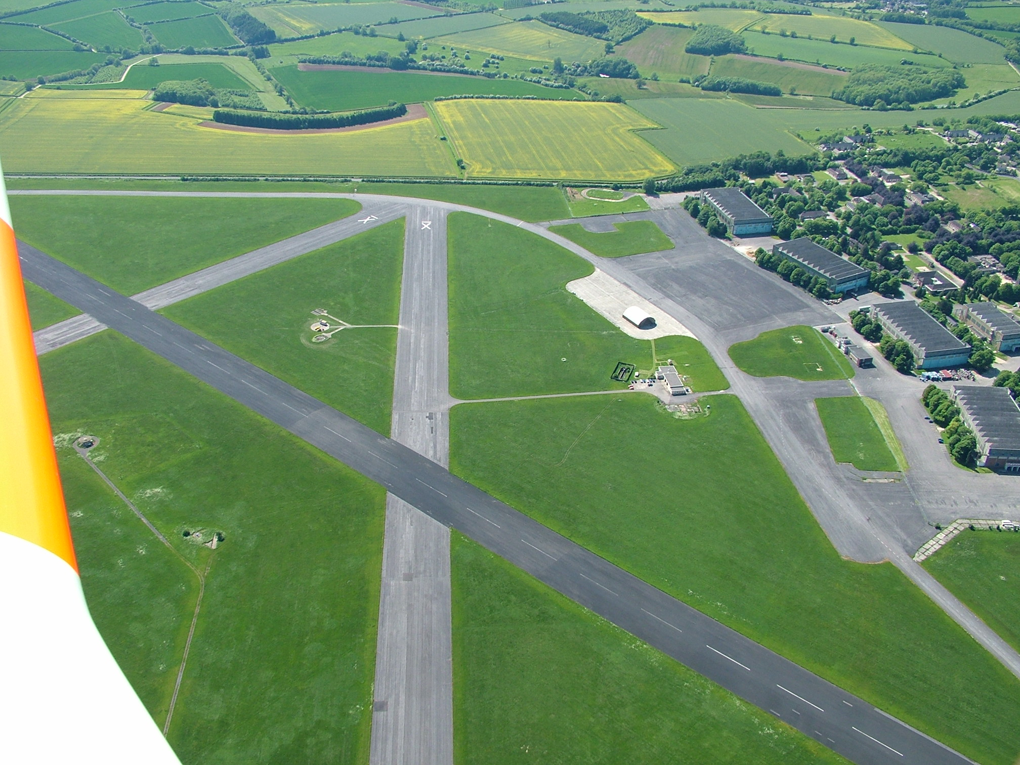 637 VGS